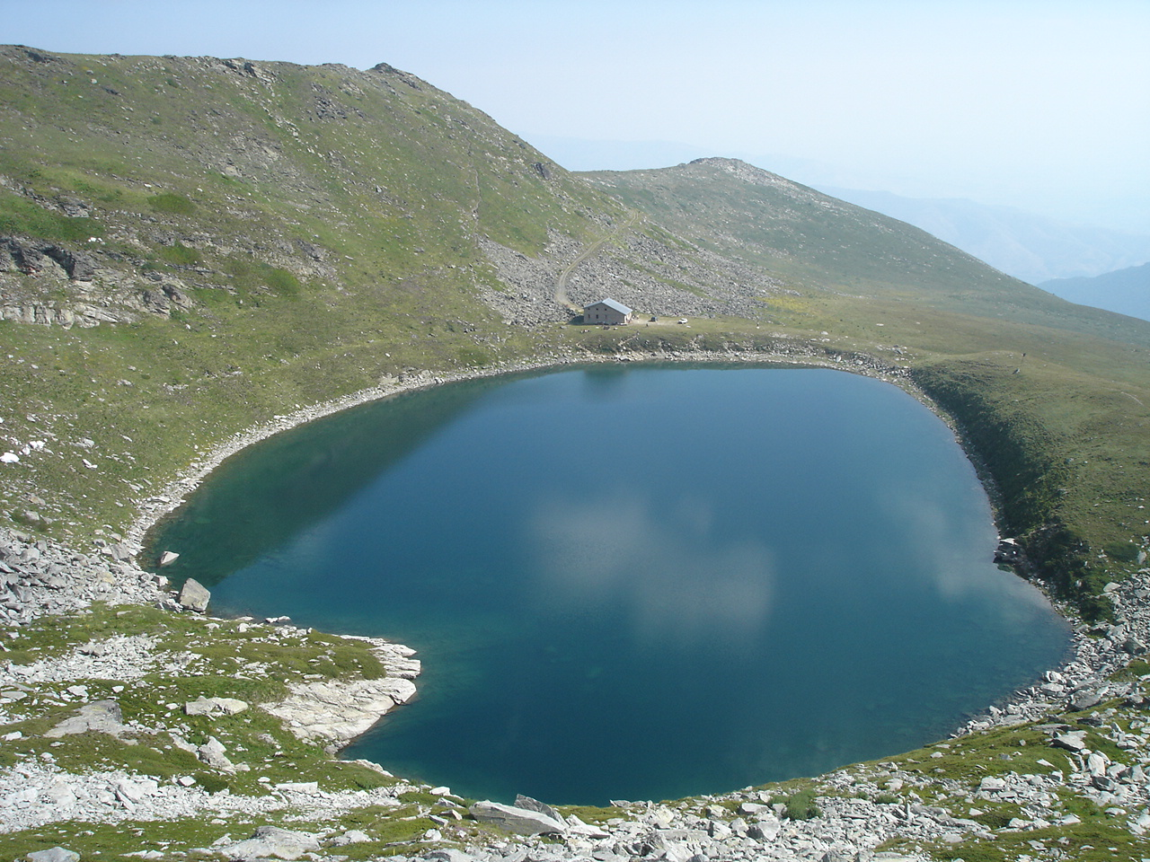 The Great Lake on Pelister, Macedonia